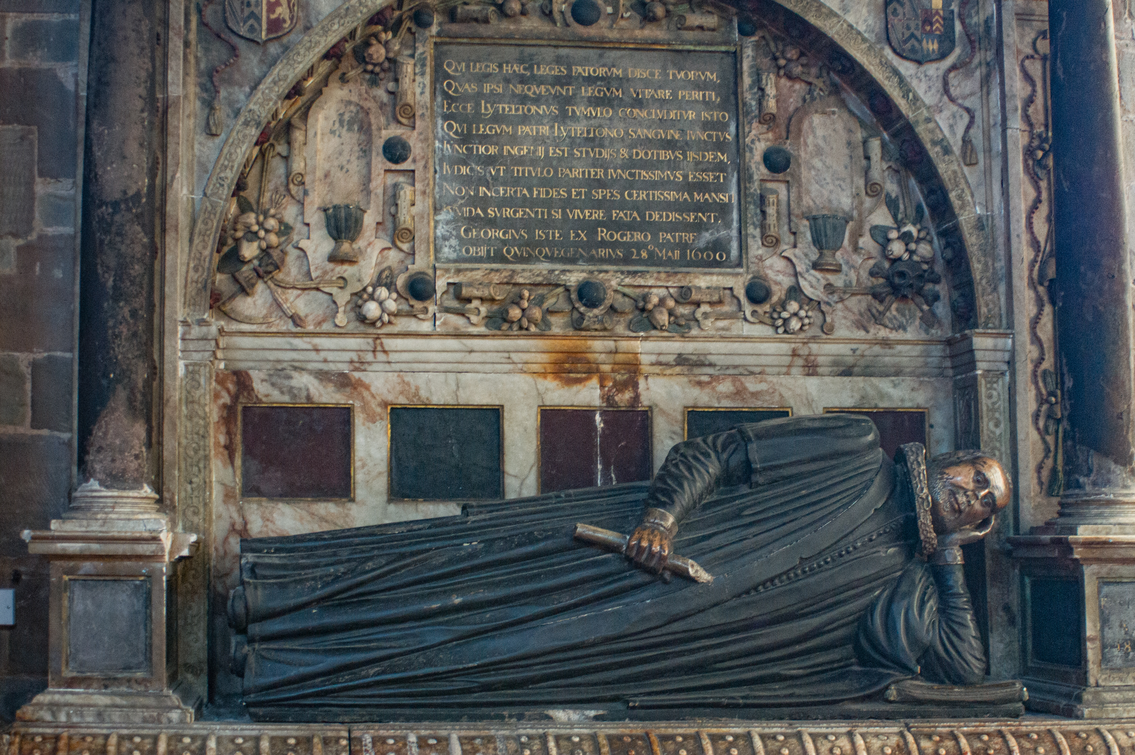 Tomb of Judge George Lyttelton